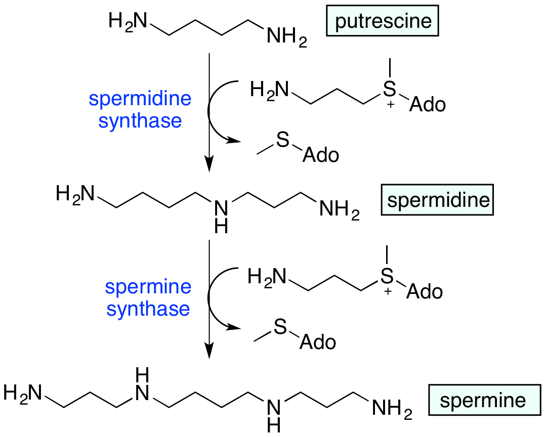 biosynthesis of spermidine and spermine from putrescine